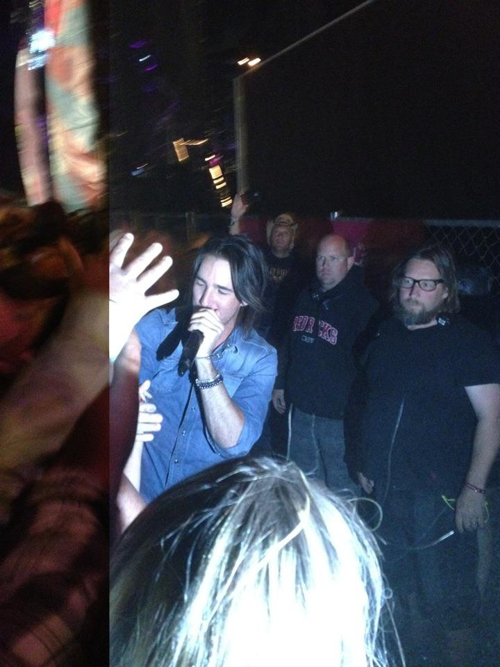 Jake Owen performing at Country Thunder 2012 in Florence, Arizona